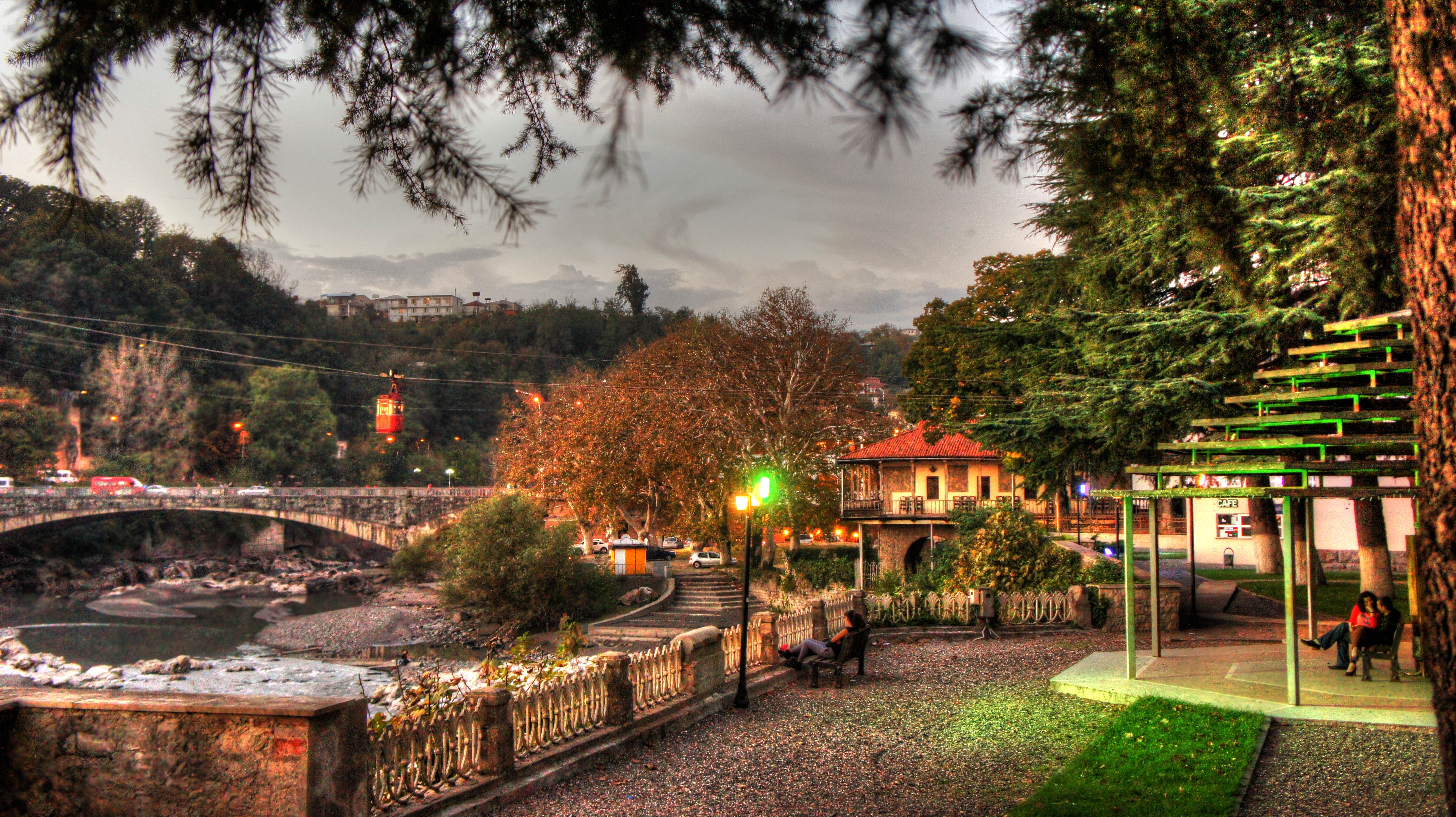 A square garden near the Okros Chardakhi palace in downtown Kutaisi.